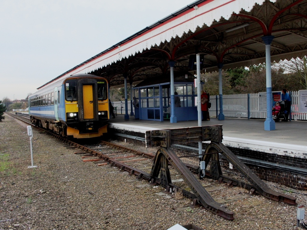 153314 arriving at Felixstowe station, the end of its journey from Ipswich.